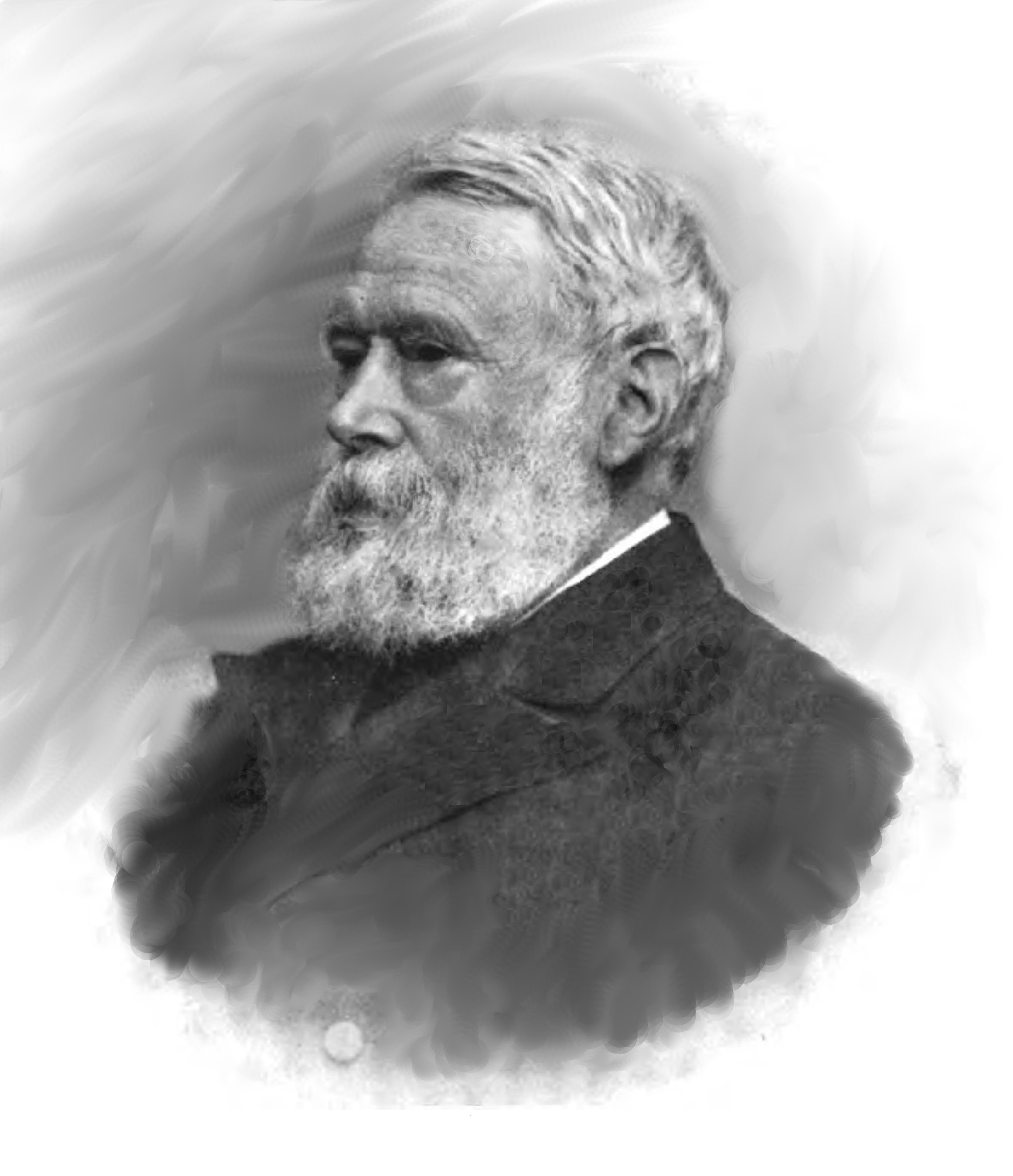 David Mather Masson FRSE RSA (2 December 1822 – 6 October 1907), was a Scottish literary critic and historian.